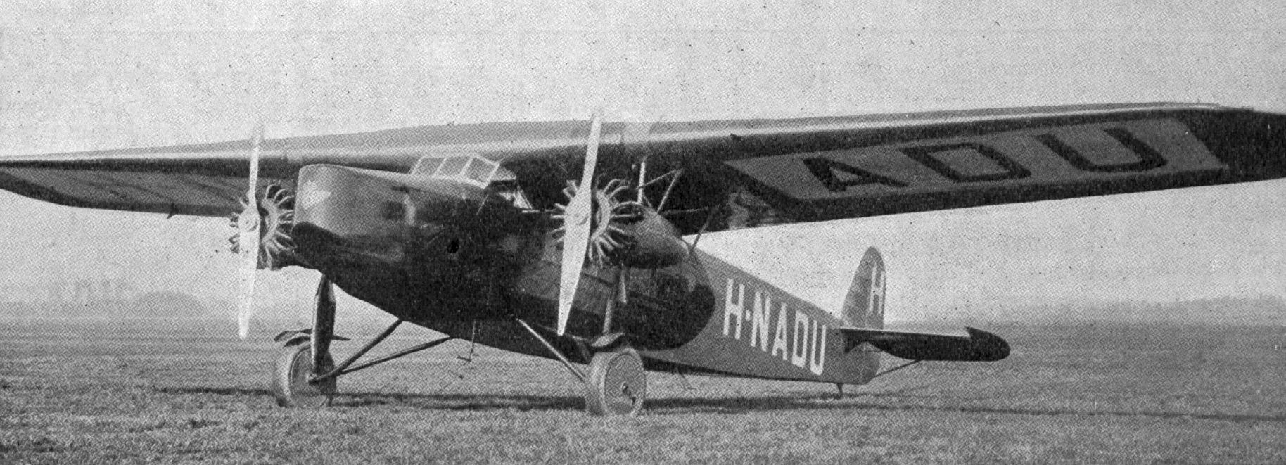 Fokker F.VIII photo from L'Aéronautique August,1927